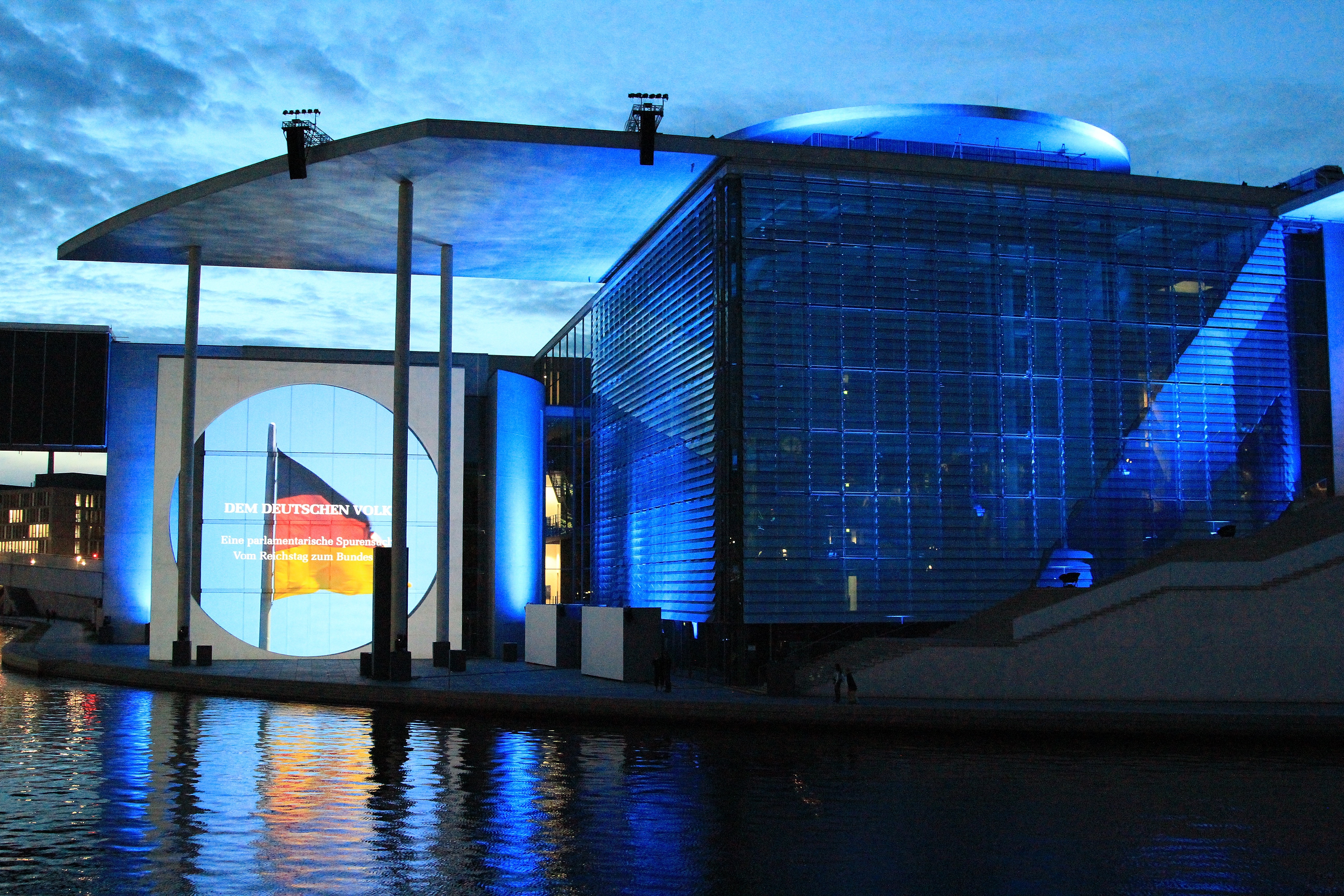 Berlin: The Marie-Elisabeth-Lueders-Haus. View from south across the river Spree.